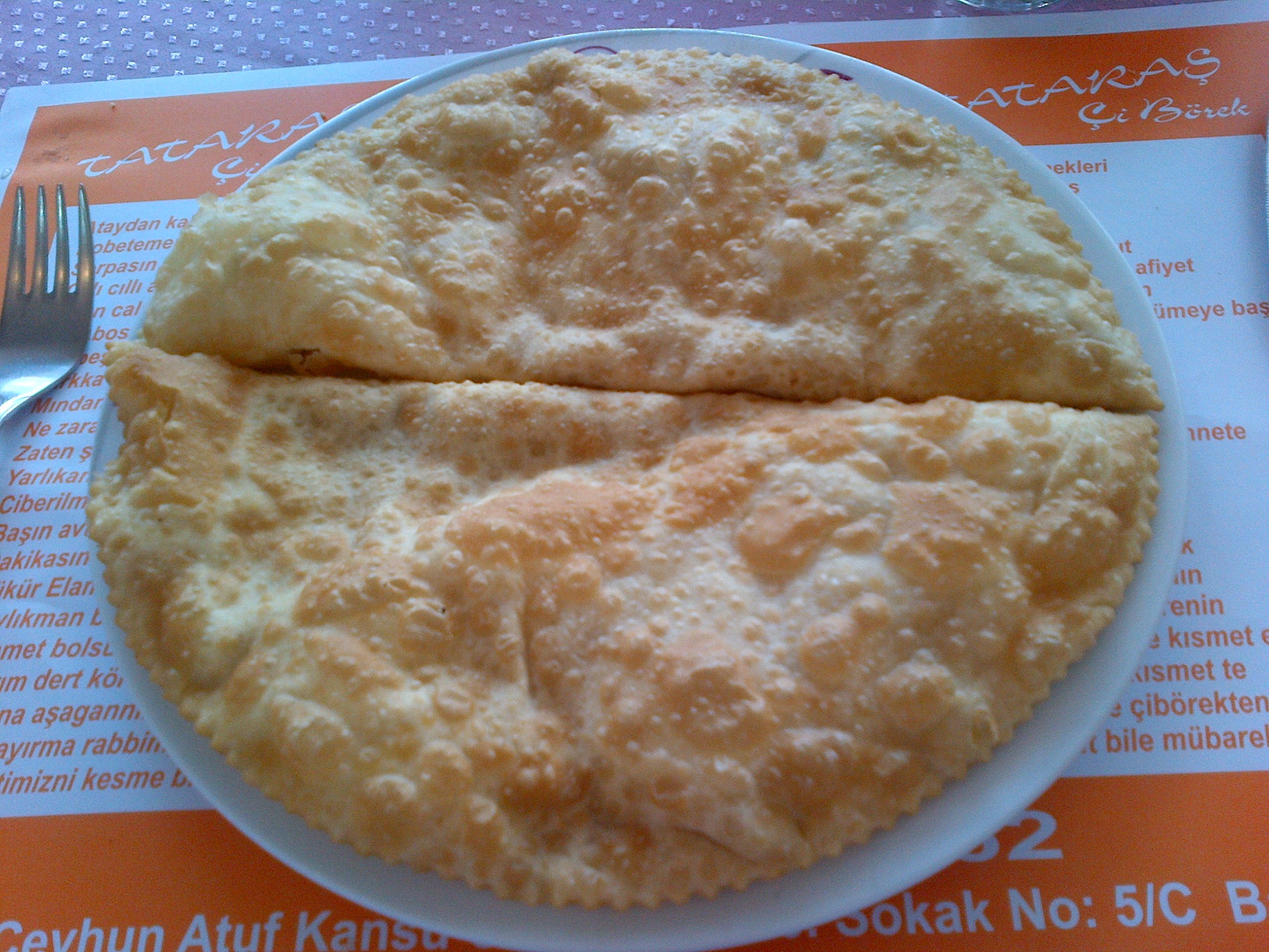 Çiberek at a Tatar restaurant in Ankara